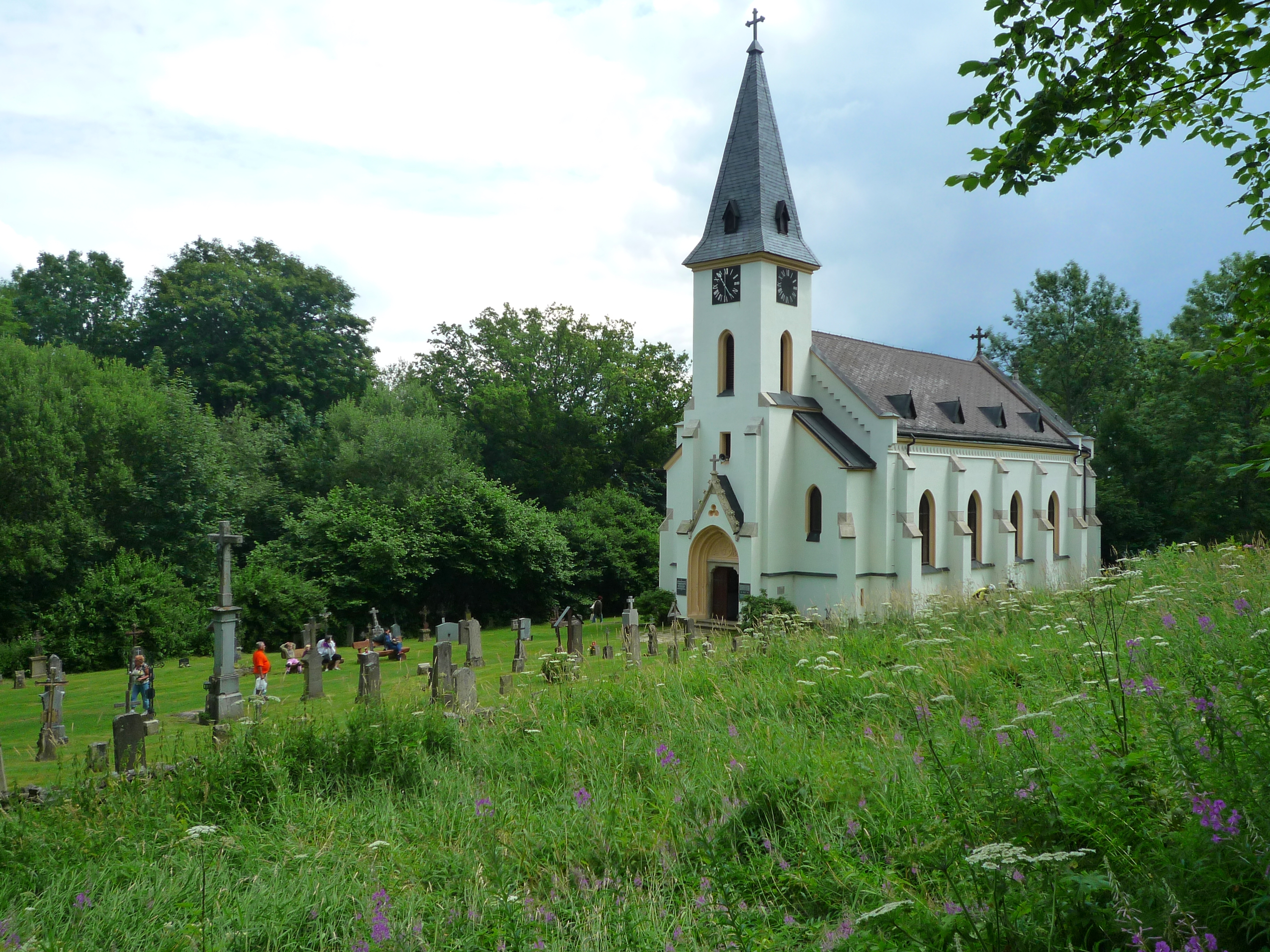 Church in Zvonková (Glöckelberg) (CZ)